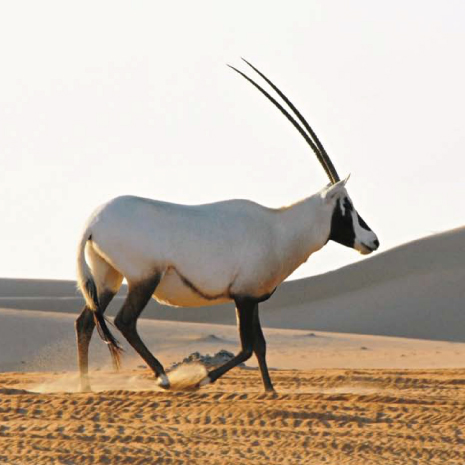 Oryx leucoryx in the Western Region of Abu Dhabi